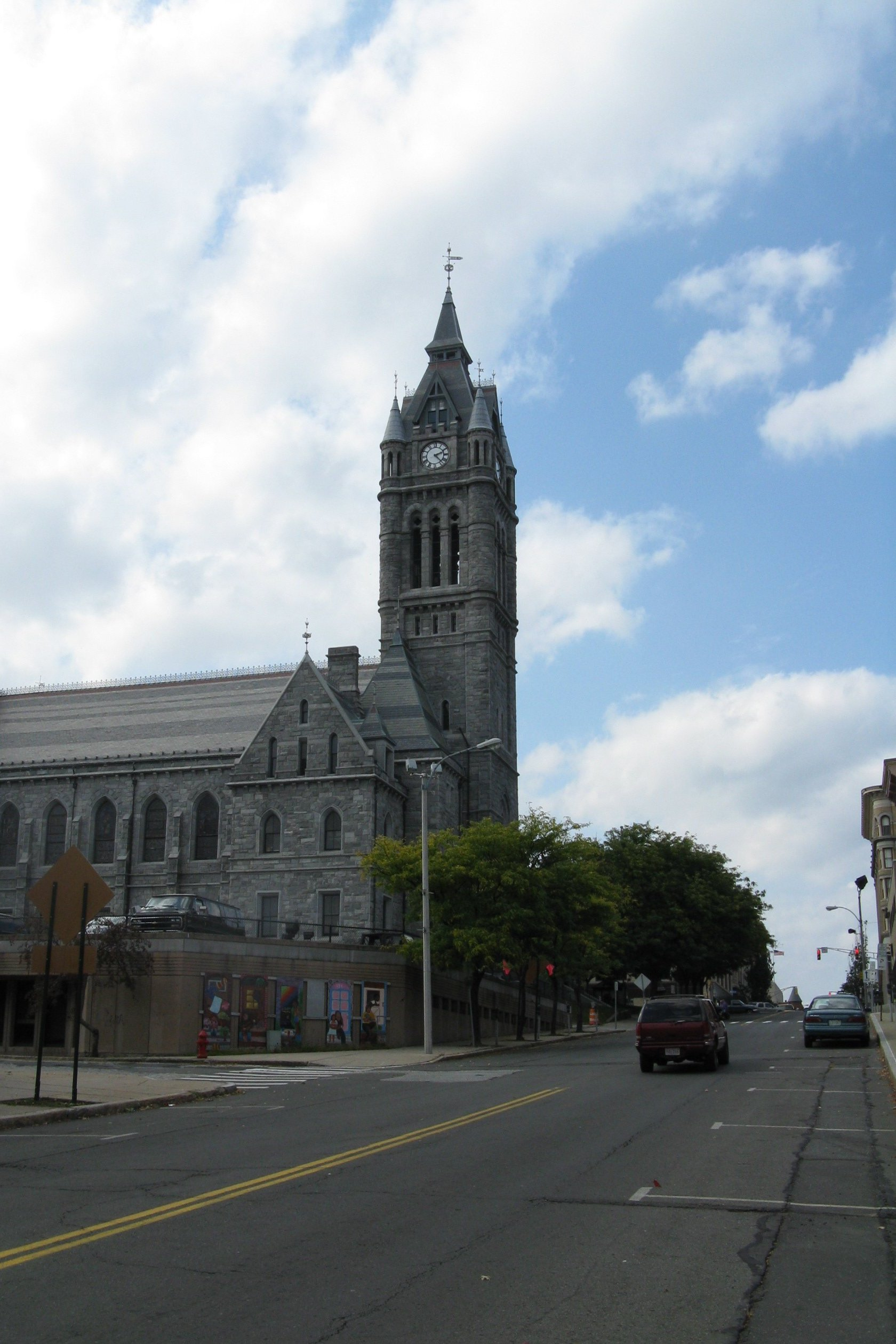 Holyoke City Hall, Holyoke Massachusetts